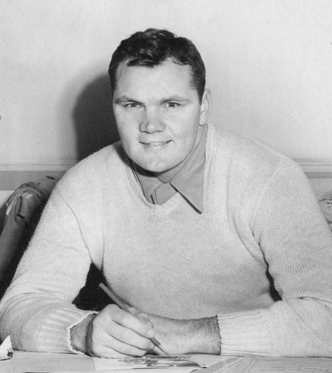 New York Giants Football Player Tex Coulter Passes Time Press Photo